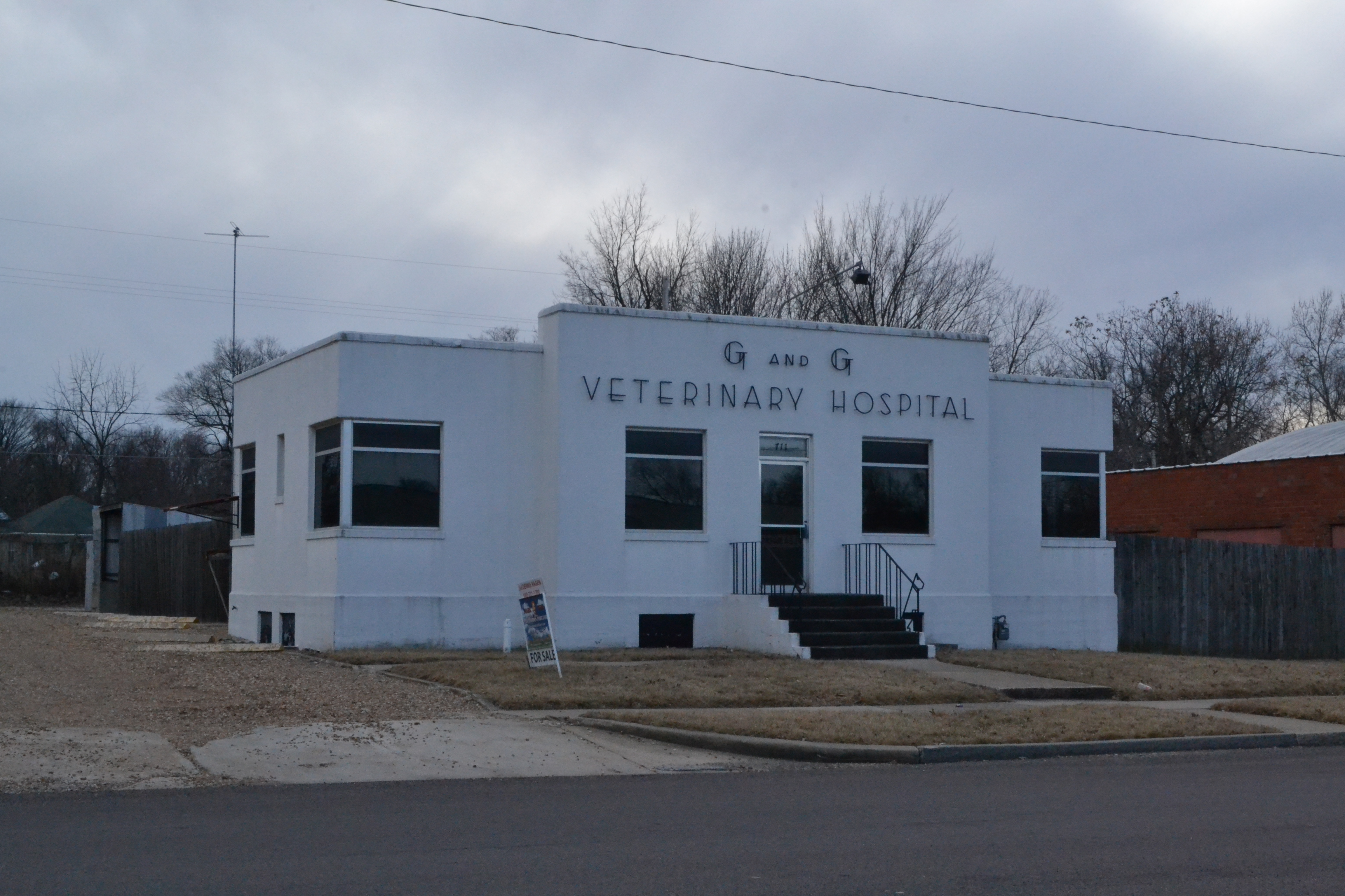 G and G Veterinary Hospital in Sedalia, Missouri. Listed on the National Register of Historic Places.